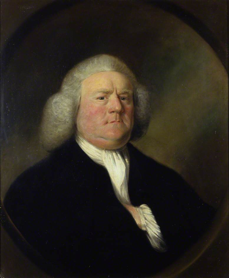 Depicted person: William Boyce